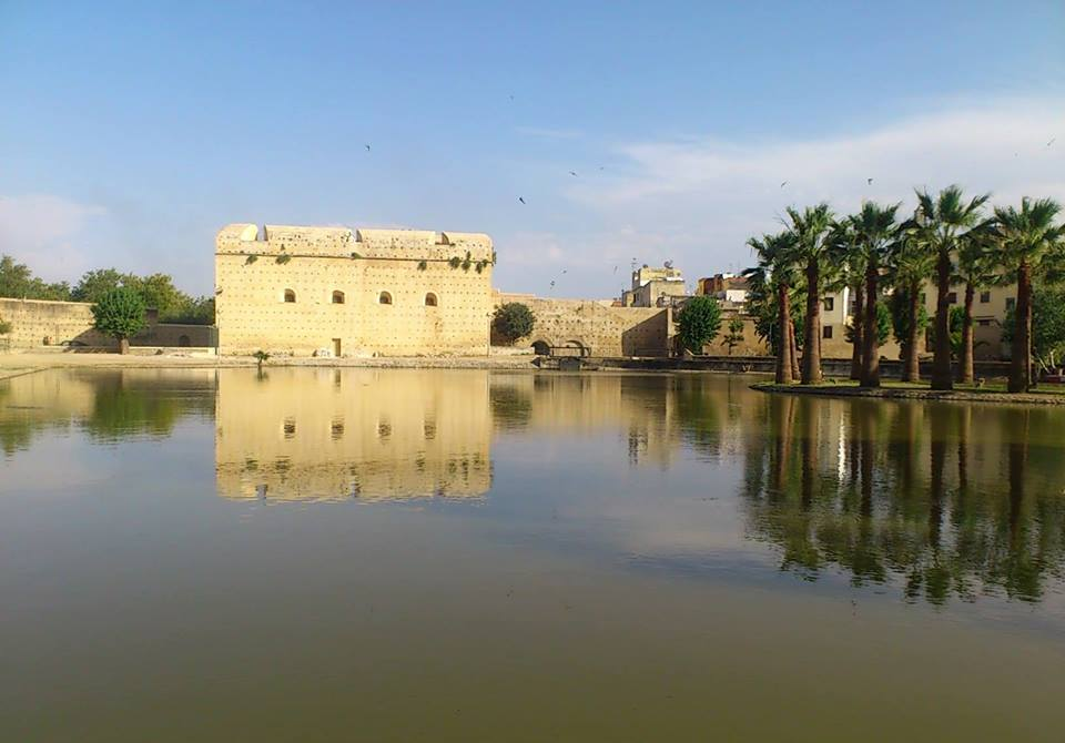 Jardin Jnan Sbil, Fez